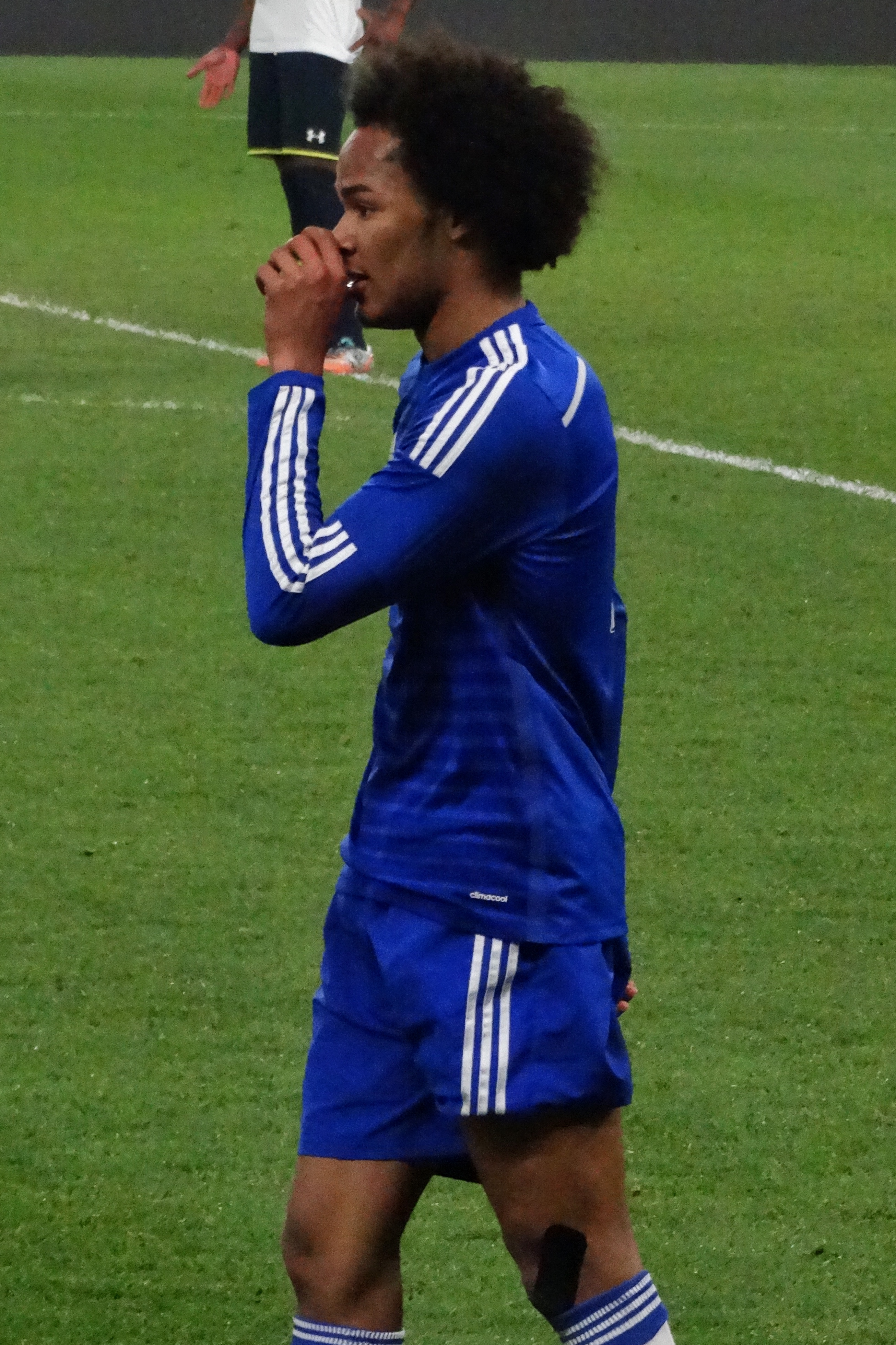 Chelsea 5 Spurs 2 (5-4 Agg)